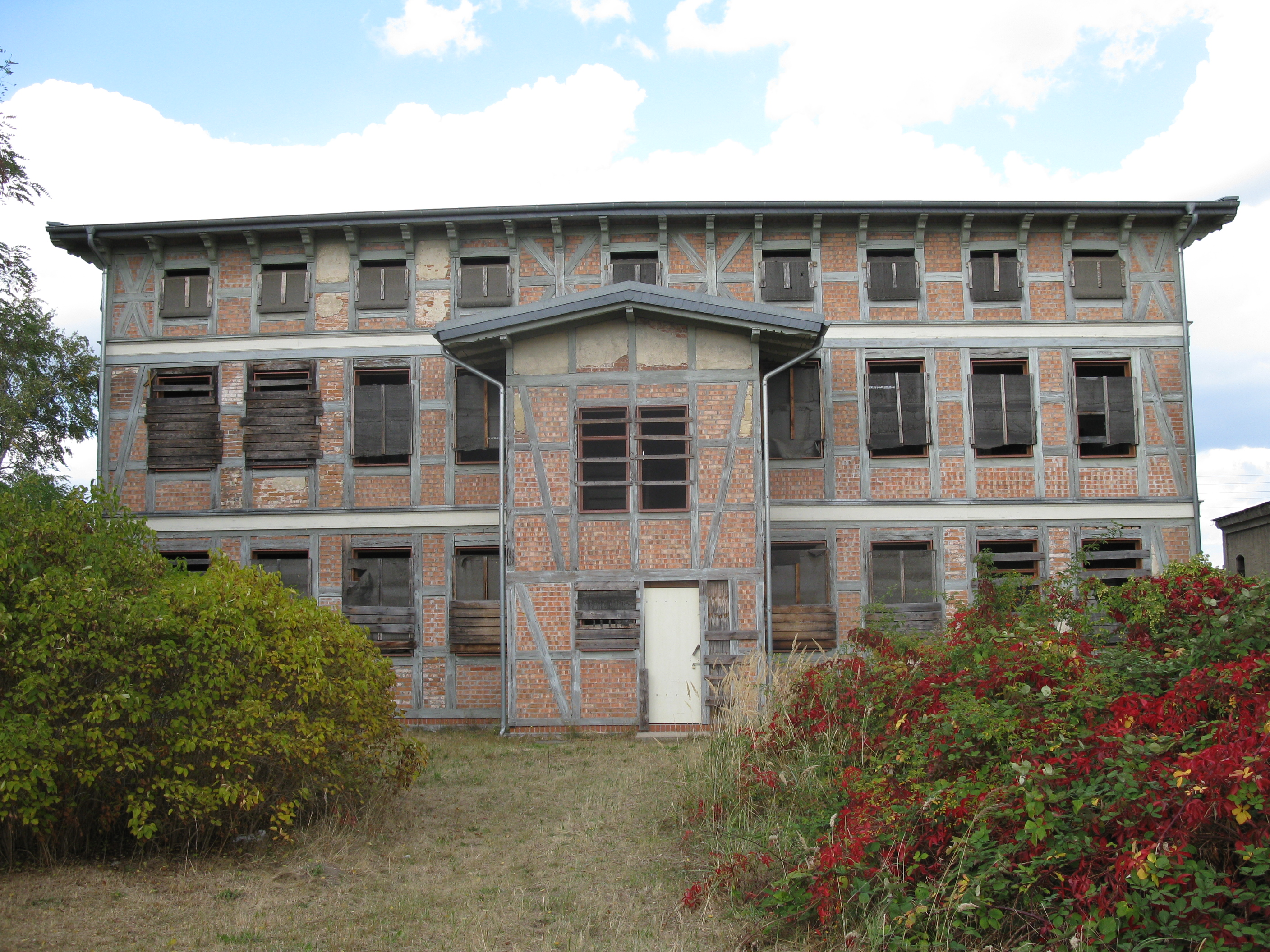 Old Station Lutherstadt Wittenberg